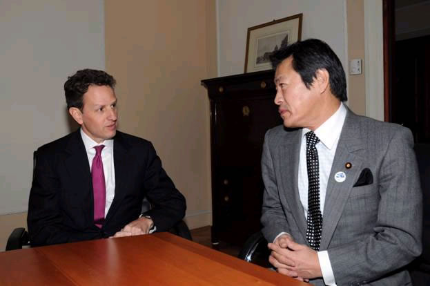 Timothy F. Geithner, Secretary of the Treasury, talked with Shōichi Nakagawa, Minister of Finance, at the site of the G7 Finance Ministers and Central Bank Governors meeting in Rome Comune, Lazio Regione on February 13, 2009.